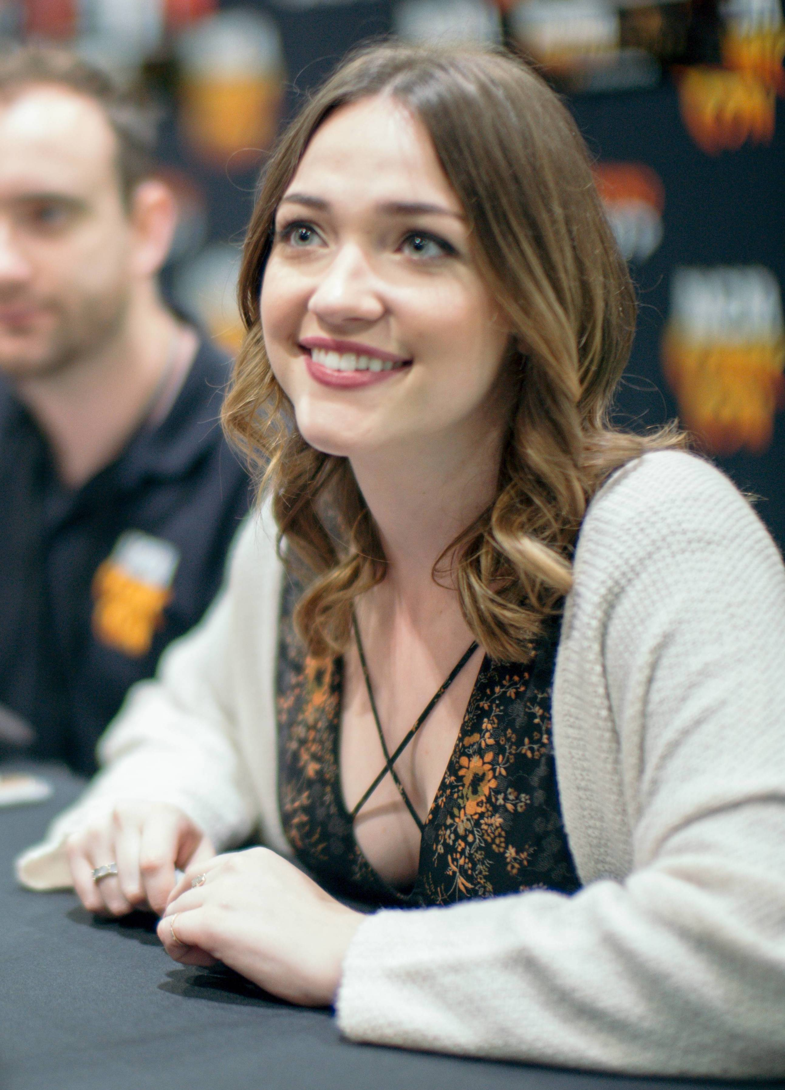 Violett Beane at London Comic Con, October 2016